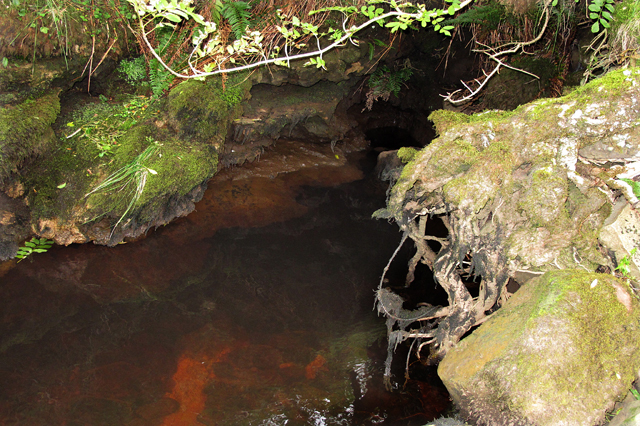 The resurgence of Leck Beck at Leck Beck Head - the pool is about 1 m wide